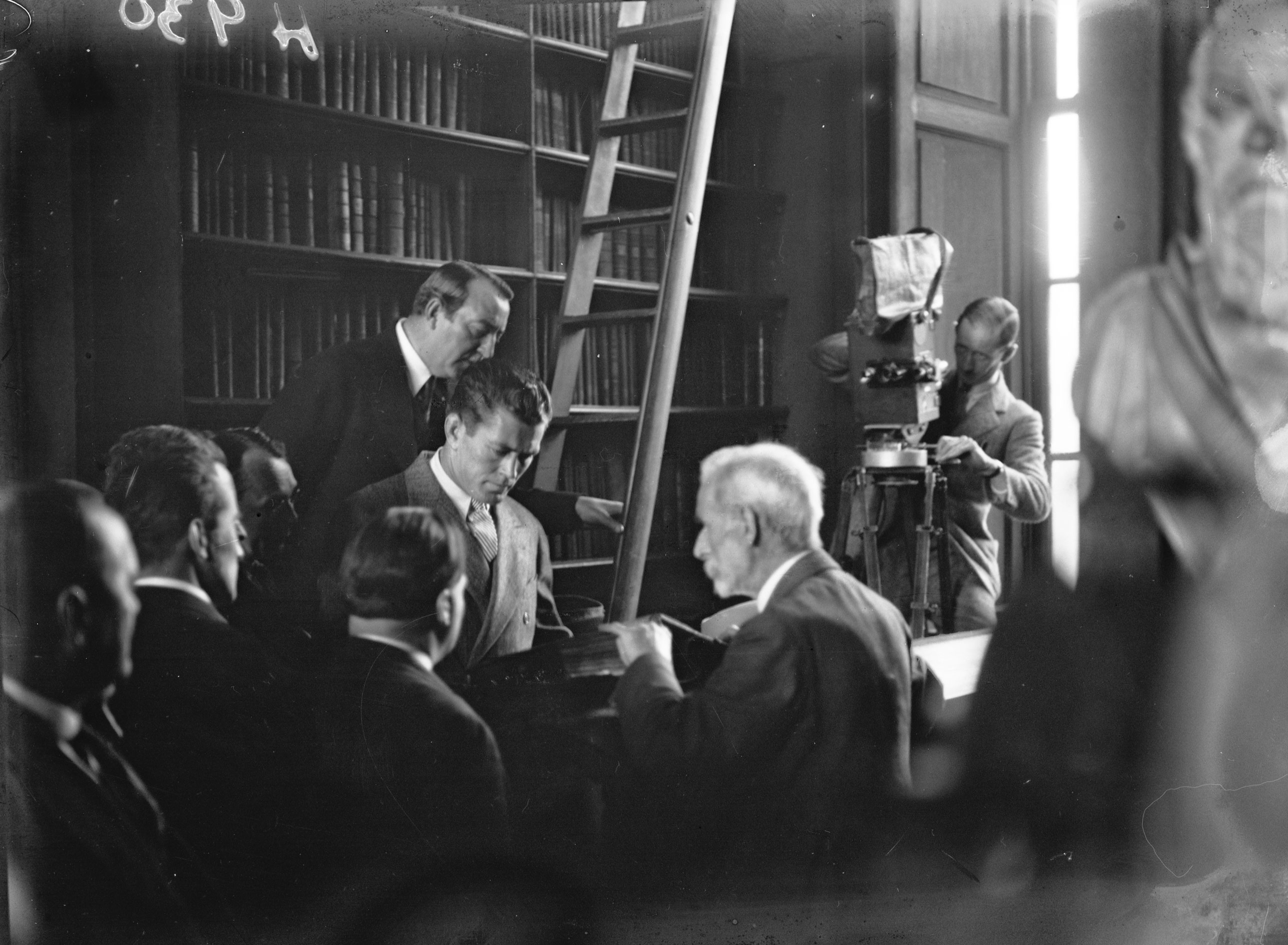 Retired World Heavyweight Boxing Champion Gene Tunney in the perhaps unlikely surroundings of Trinity College Dublin. One of Tunney's stop offs on his very high profile visit to Ireland was to see the Book of Kells. Fairly sure, but would like confirmation, that this photo was taken in the Long Room Library... Date: Friday, 24 August 1928 NLI Ref.: IND_H_0930